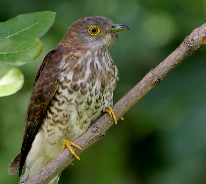 Common Hawk-cuckoo or Brainfever bird Cuculus varius in Hyderabad, India.